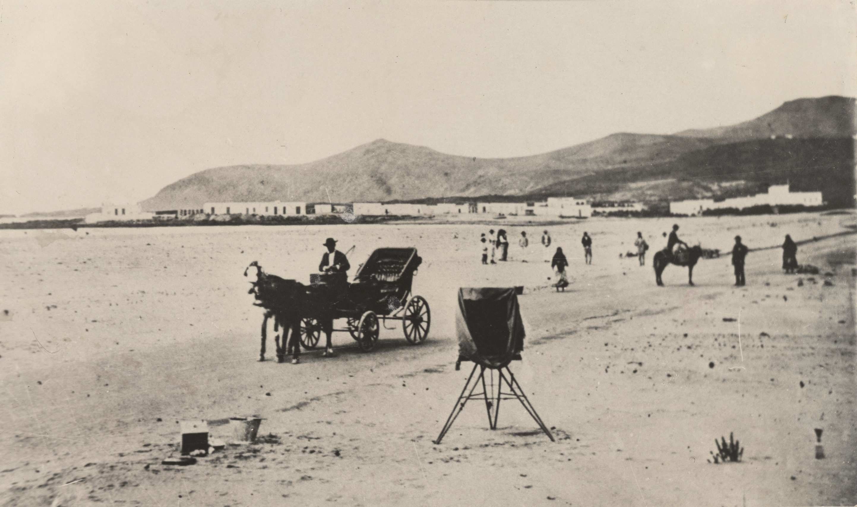 Landscape of the isthmus of Guanarteme in the fourteenth century. La Puntilla zone of Las Canteras. Las Palmas de Gran Canaria (Gran Canaria). Canary Islands, Spain.